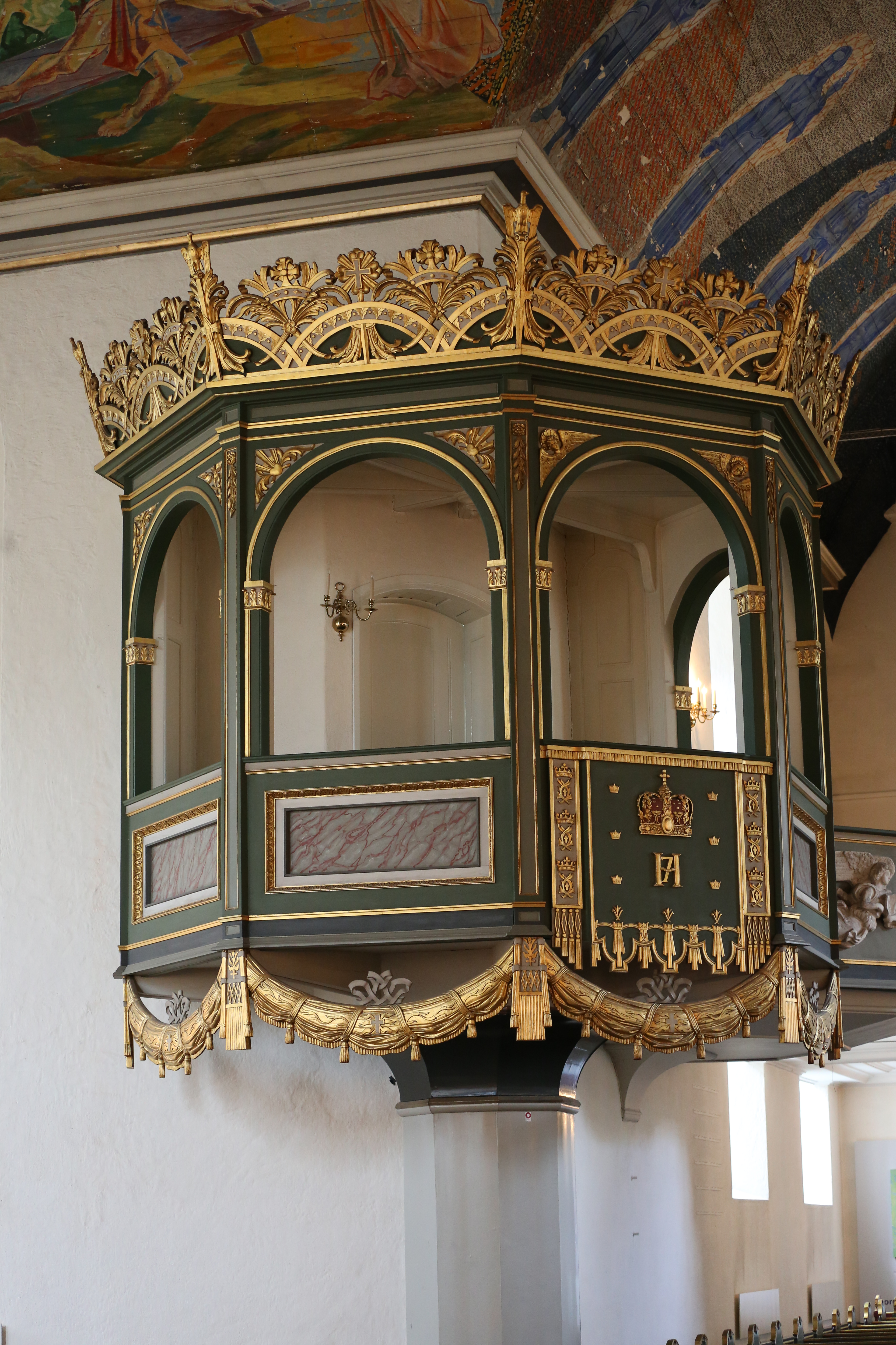 Oslo domkirke (Oslo Cathedral). Royal box